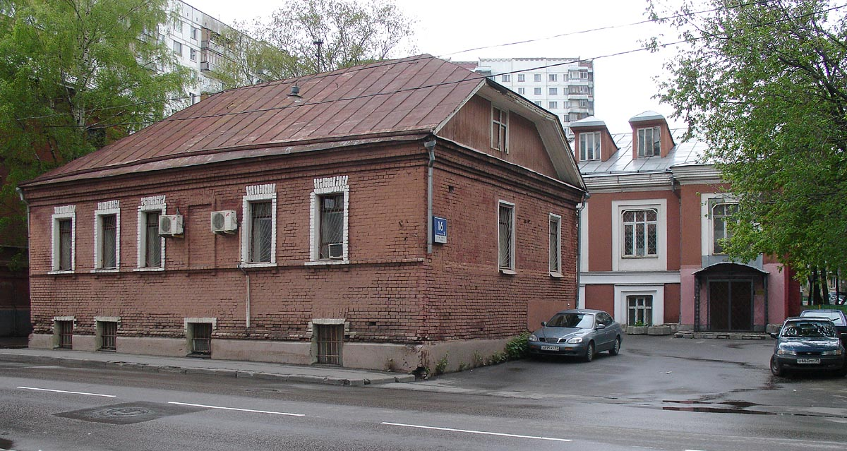 Moscow, Сourthouse in a historic building, Kovylinsky Lane, Preobrazhenskoye District